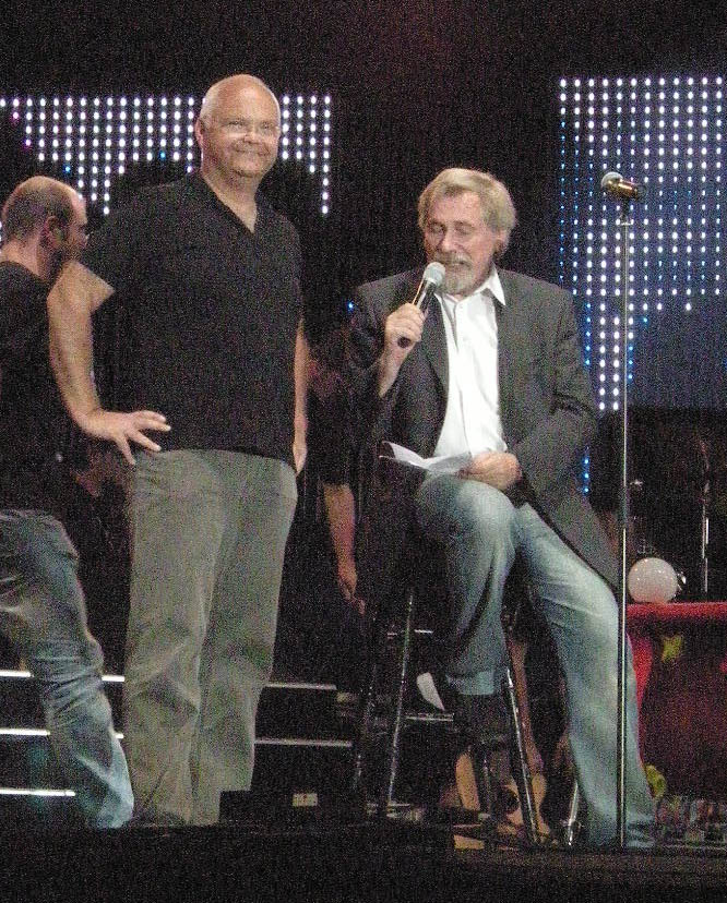 Austrian presenter Peter Rapp (right) presenting Harry Kopietz, 'inventor' of Donauinselfest, on occasion of 25th anniversary of that festival.